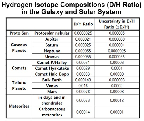 Robert, F. 2006. Solar System Deuterium/Hydrogen Ratio. Meteorites and the Early Solar System II, D. S. Lauretta and H. Y. McSween Jr. (eds.), University of Arizona Press, Tucson, 943 pp., p.341-351